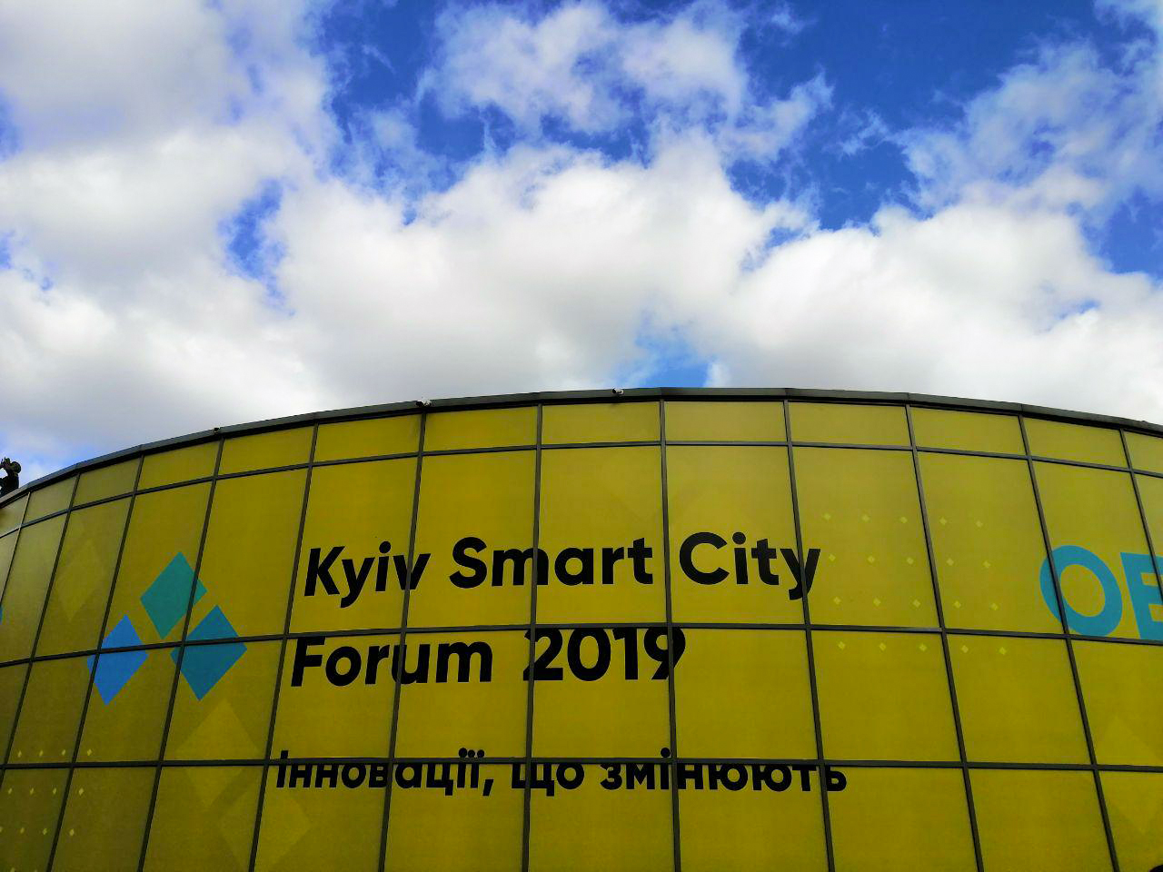 Kyiv Smart City Forum 2019